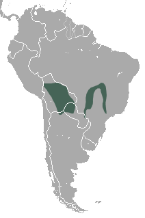 Pygmy Short-tailed Opossum (Monodelphis kunsi) range